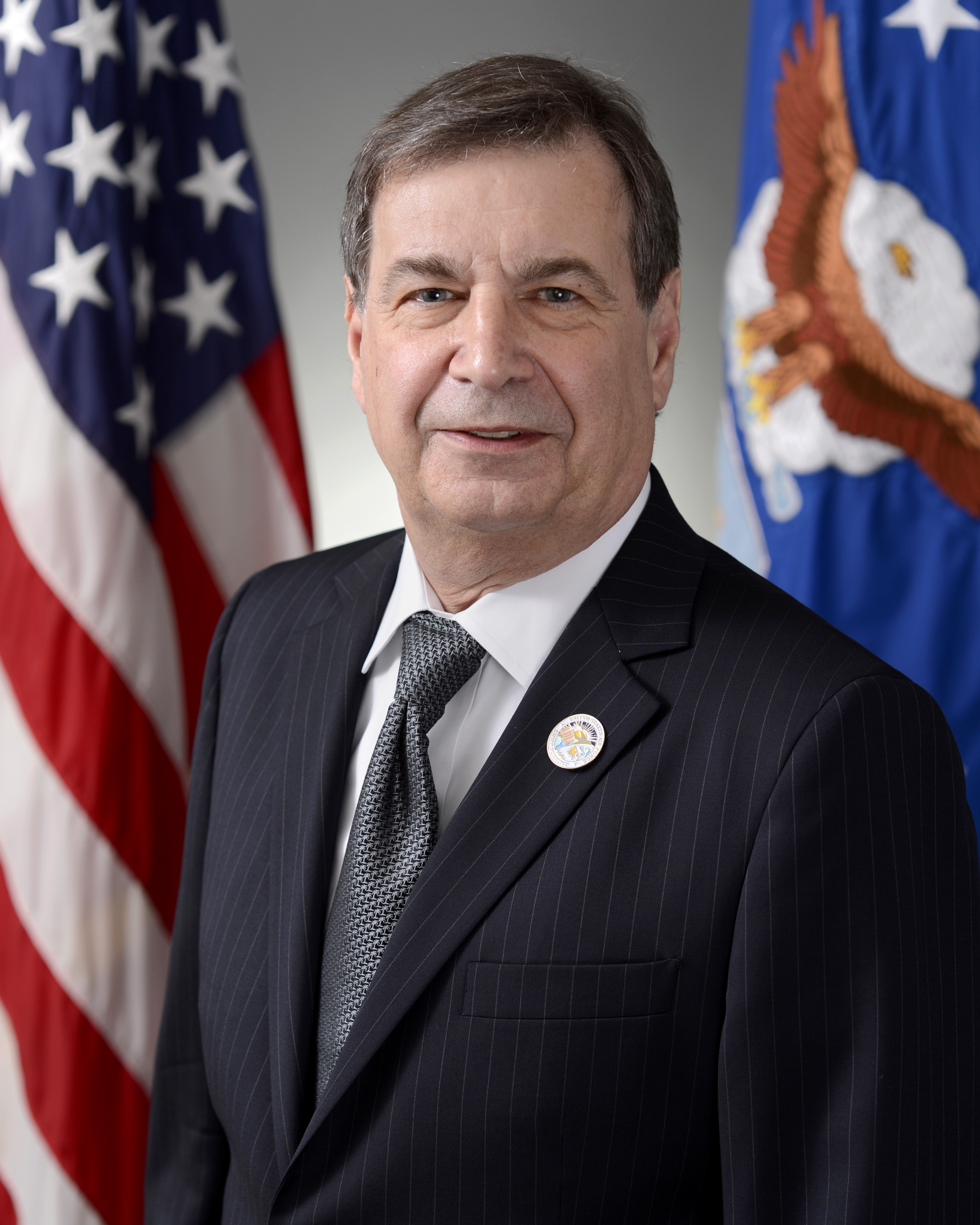 Official Air Force Image:Dr Greg Zacharias Bio Photo